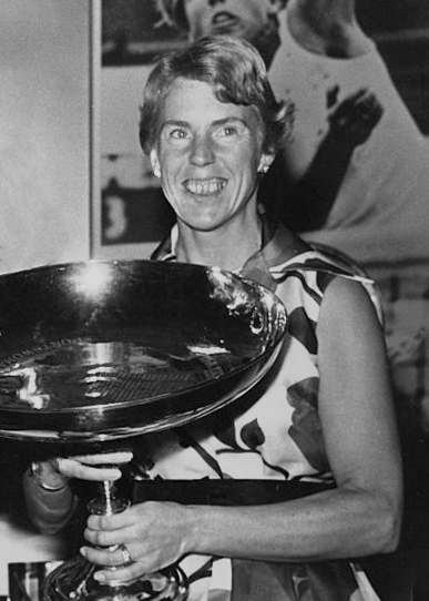 1969 Press Photo Tony Jacklin and Ann Jones British Sportsmen Of The Year